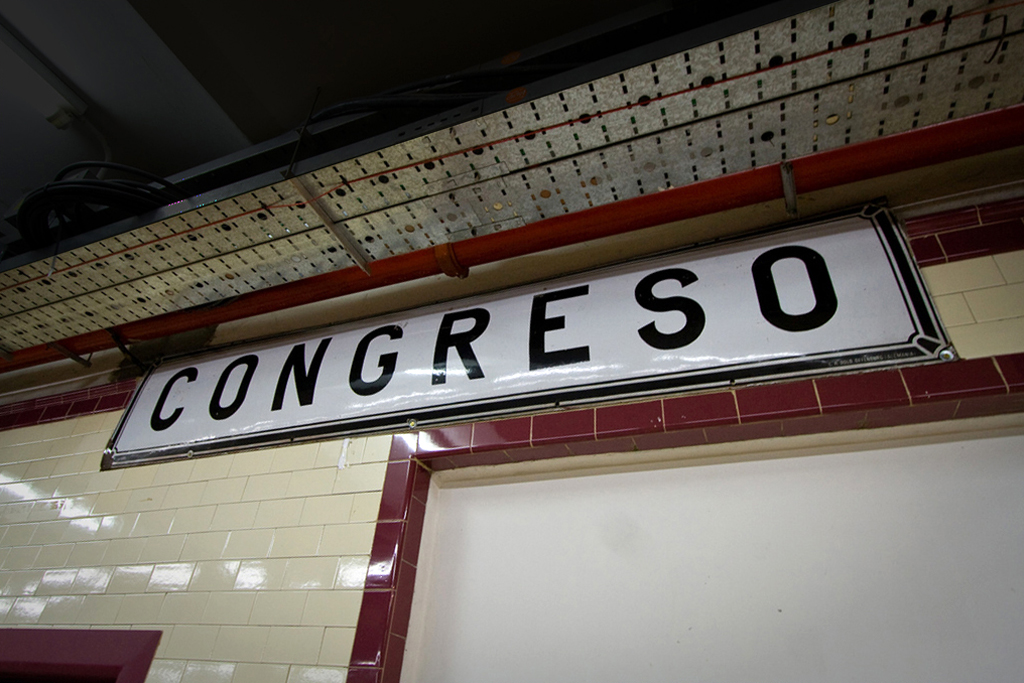 Buenos Aires Underground vintage enamel signage.